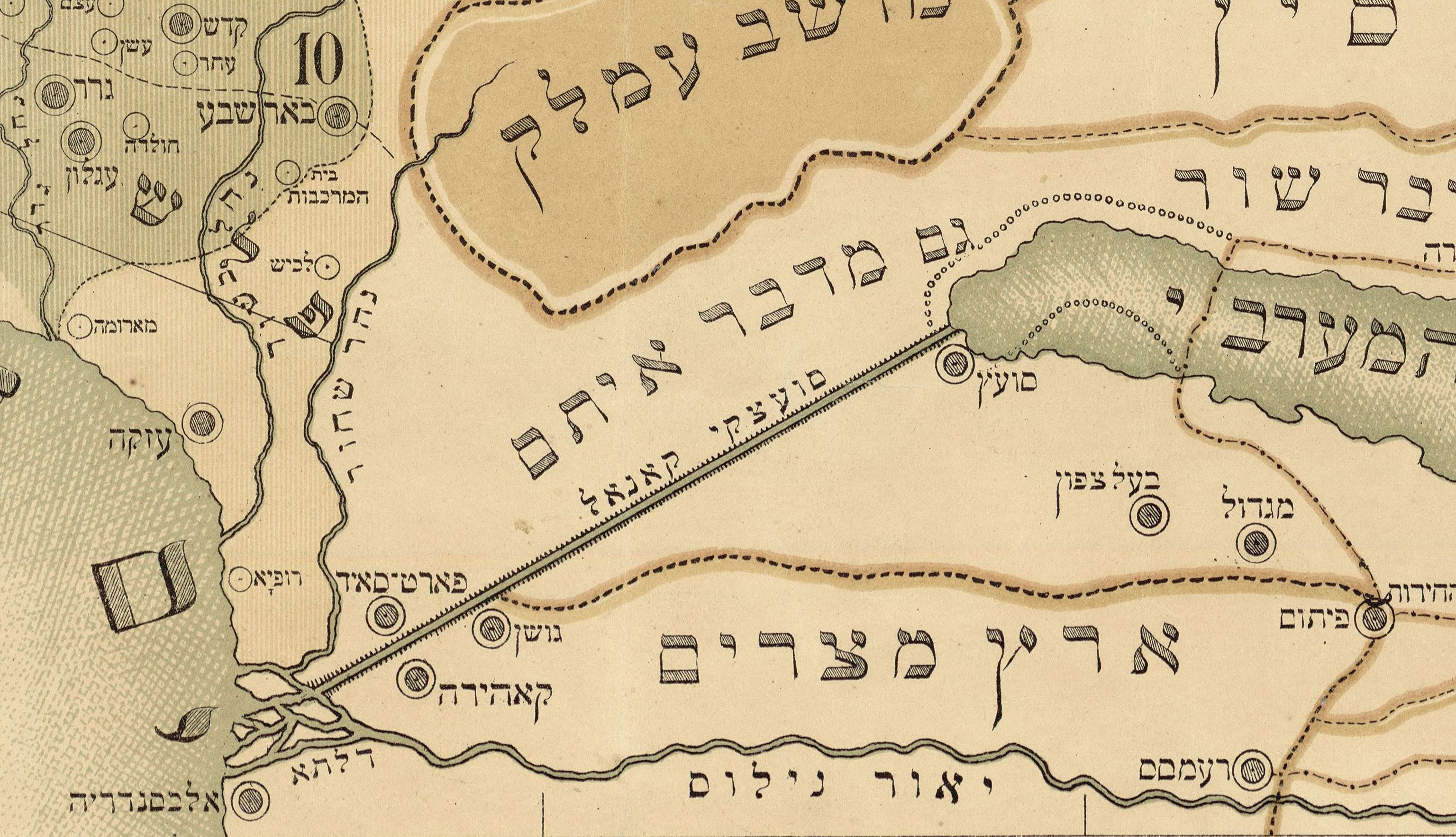 Derech Emeth Map (Malkov Map), 1894